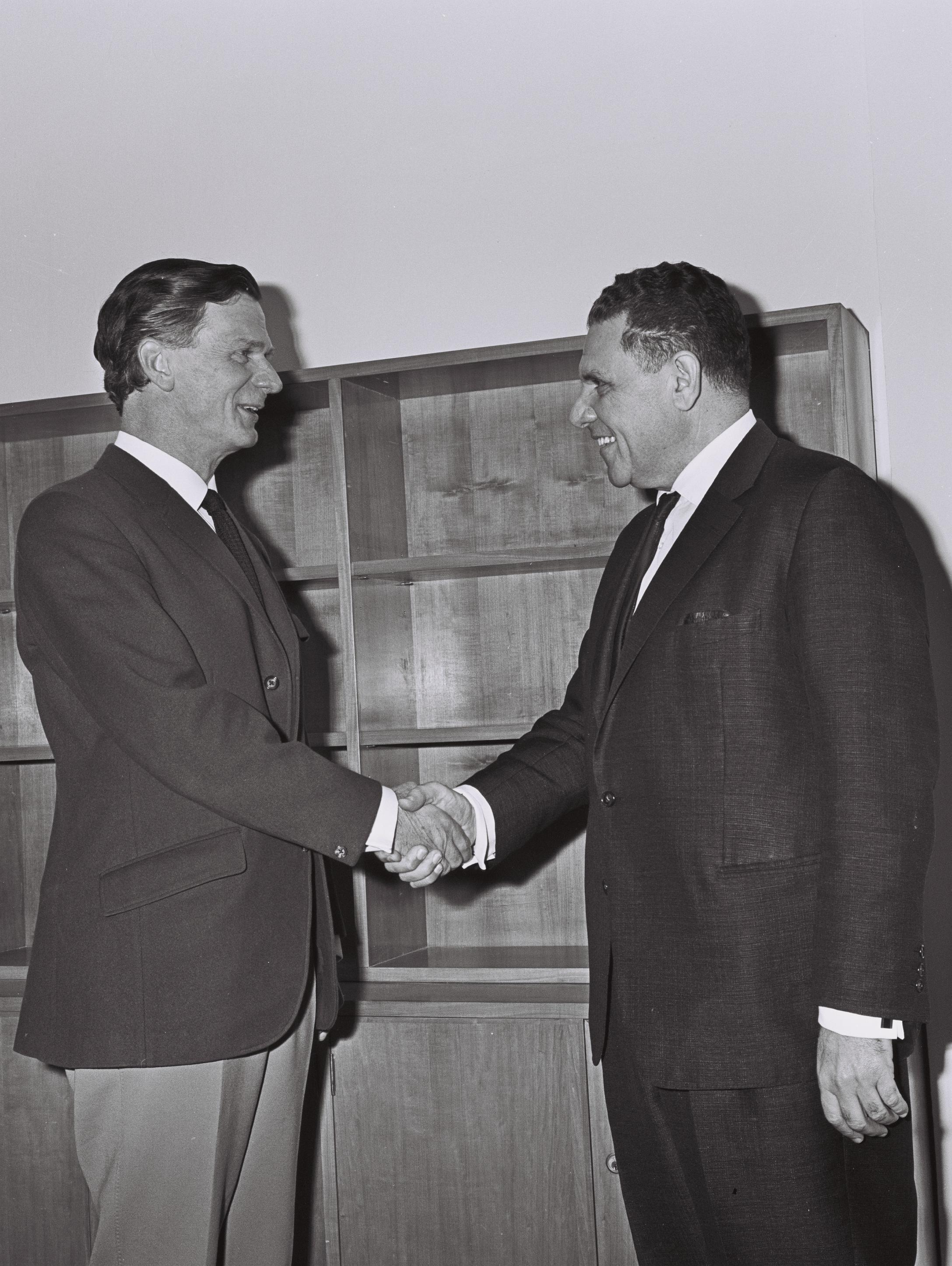 BRITISH AMB. P.M. HADOW CALLING ON MIN. OF COMMERCE AND IDUSTRY HAIM ZADOK AT HIS OFFICE AT HAKIRYA IN TEL AVIV.